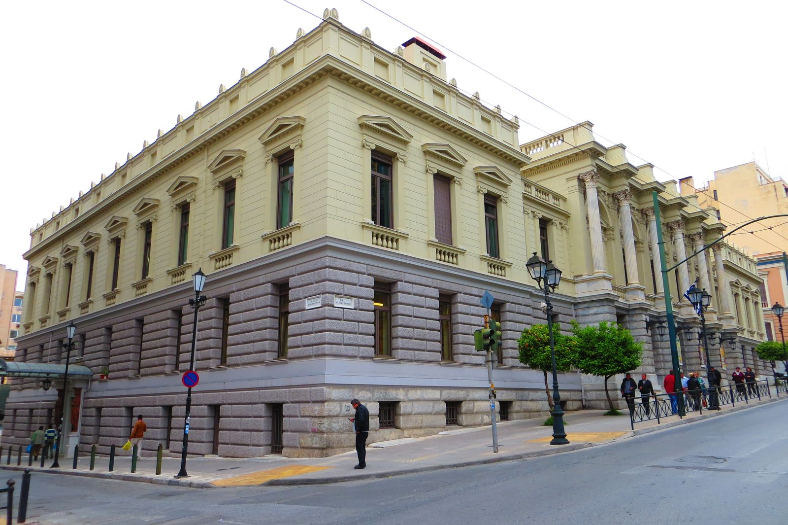 National Theatre